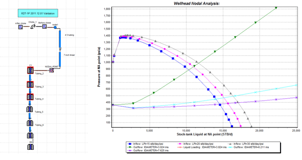 pipesim